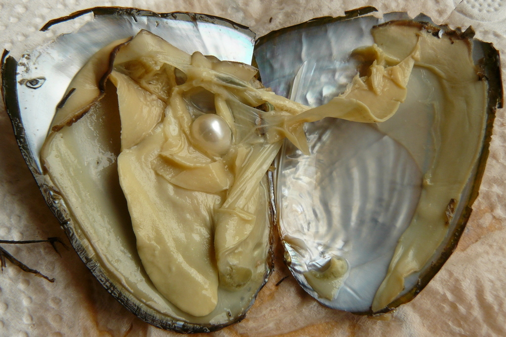 Pearls